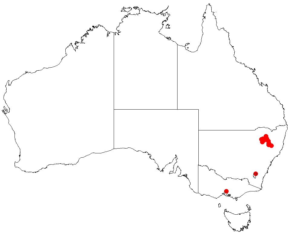 Macrozamia stenomera occurrence data downloaded from Australasian Virtual Herbarium using